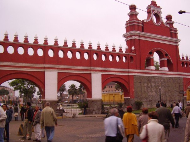 Exterior entrance to Acho Plaza, Lima Peru